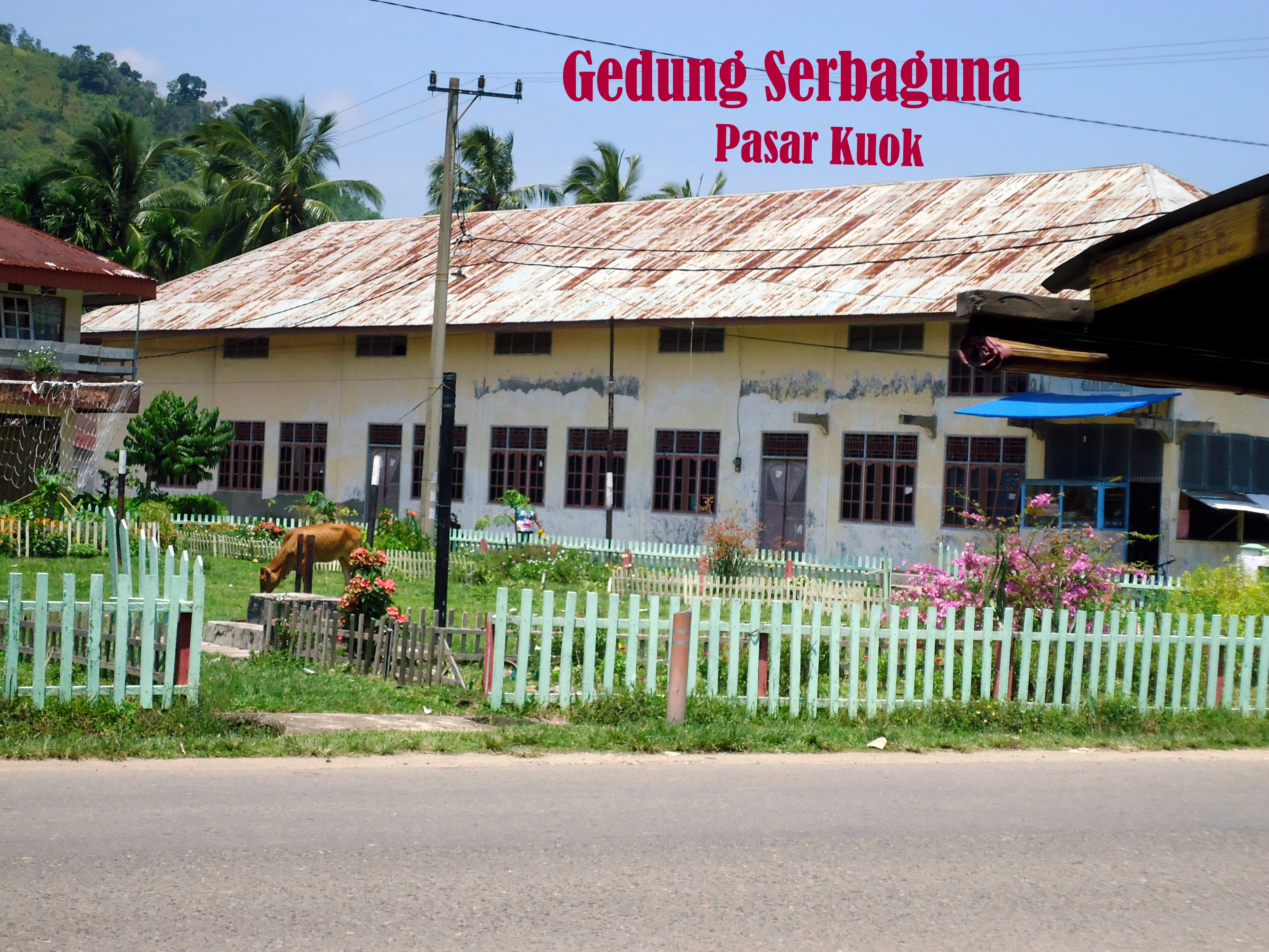 Gedung Serbaguna Pasar Kuok